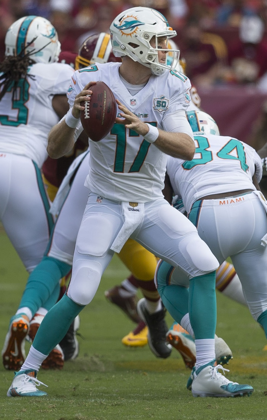 Dolphins at Redskins 9/13/15